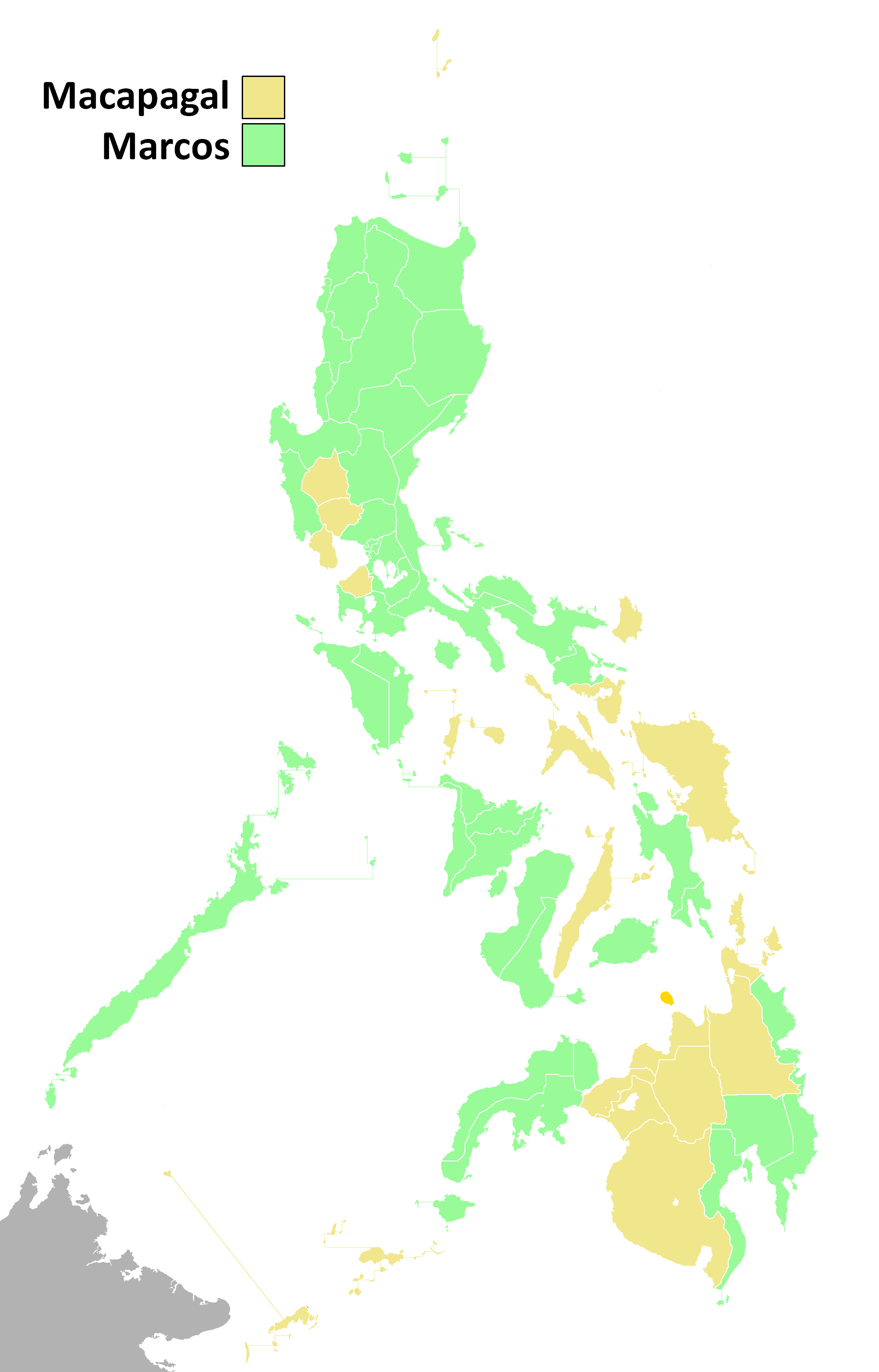 Results of the Philippine presidential election: shades refer to which candidate won a plurality in each province.